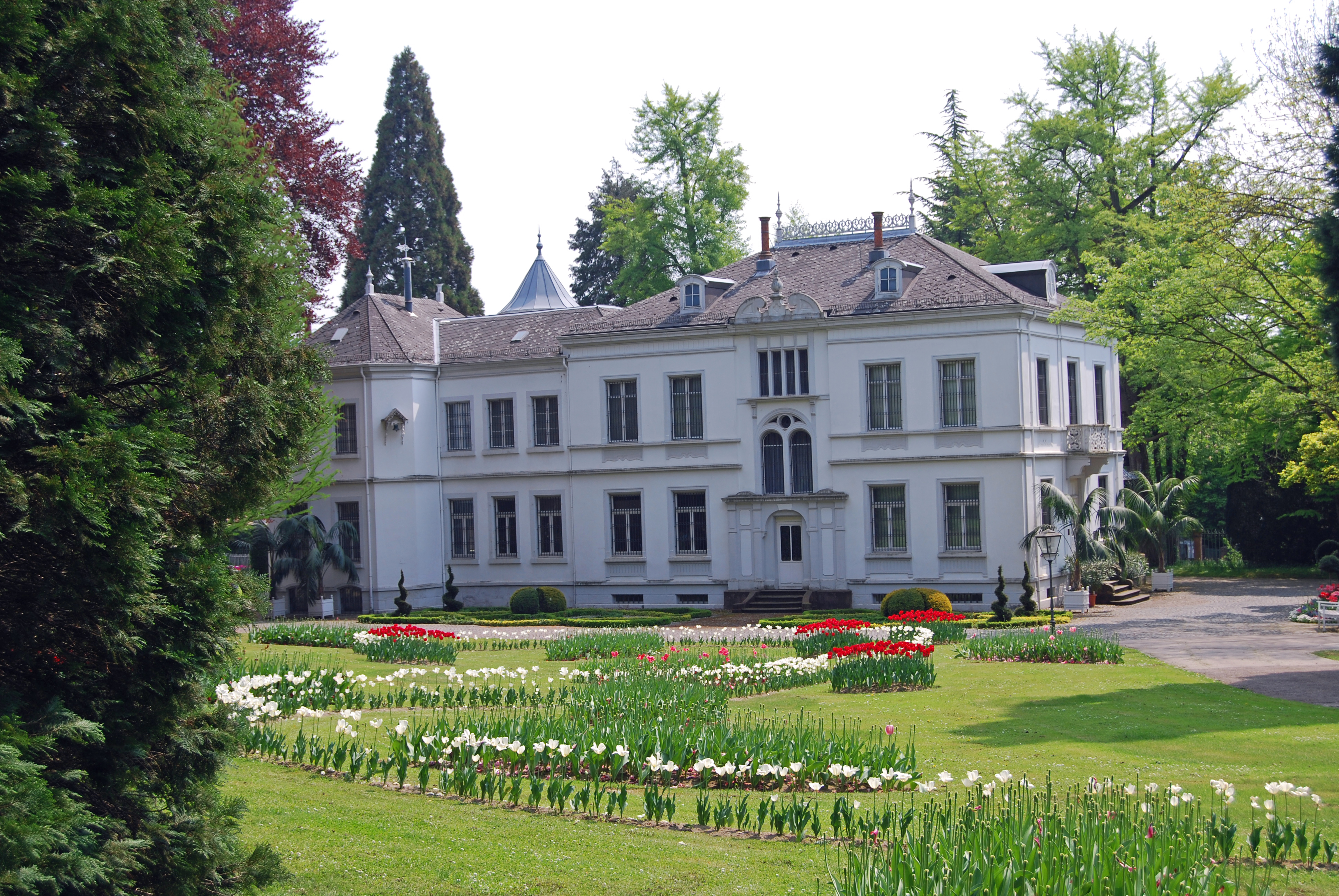 Park in Lahr